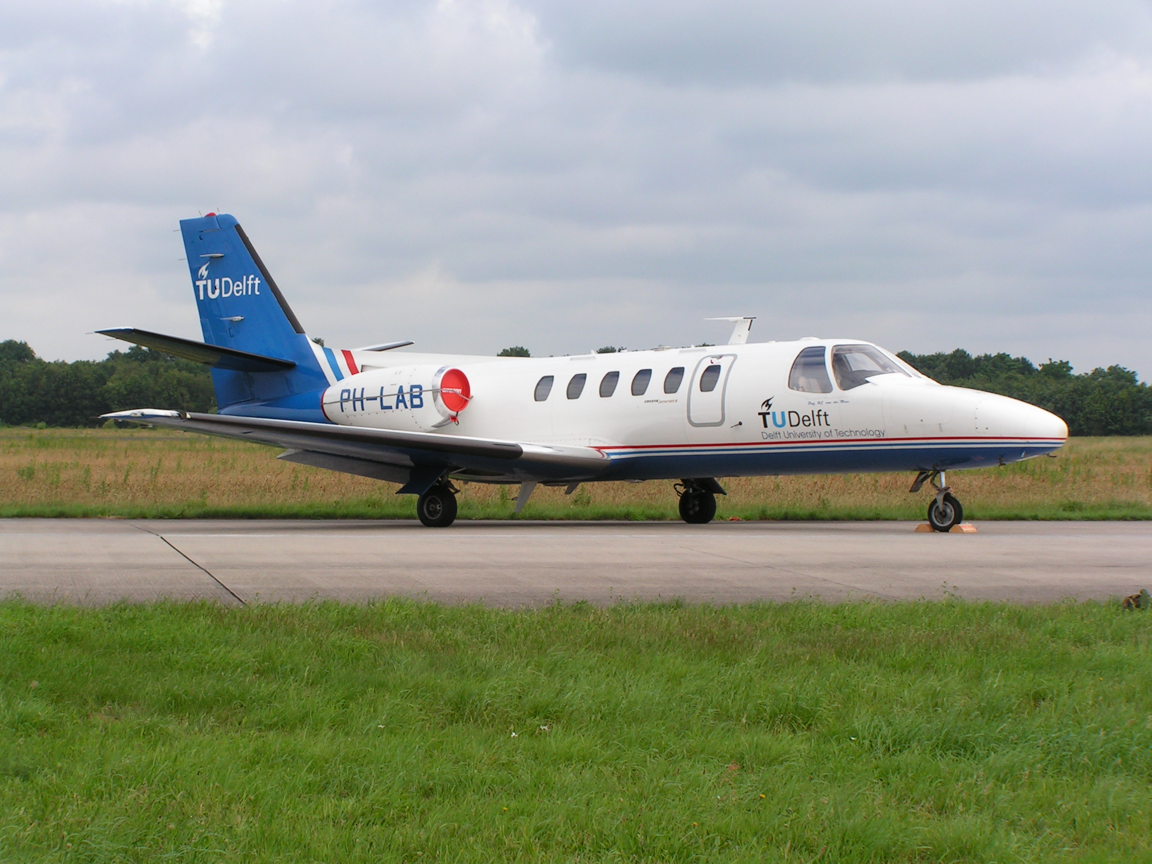 PH-LAB, a flying laboratory owned by the NLR and TU Delft, at the KLu Open Dagen 2007 in Volkel.